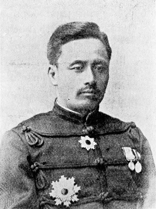 Major-General Sakuma